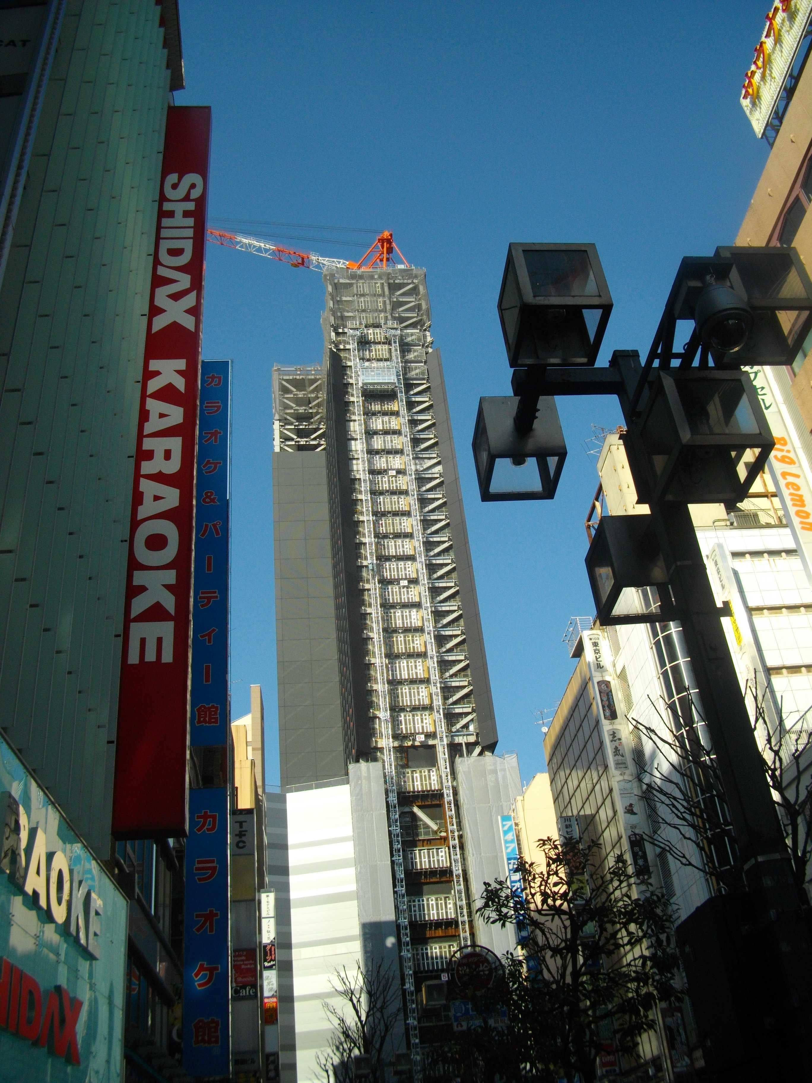 A photo of Shinjuku toho building(under construction),Kabukicho,Shinjuku-ku,Tokyo,Japan.